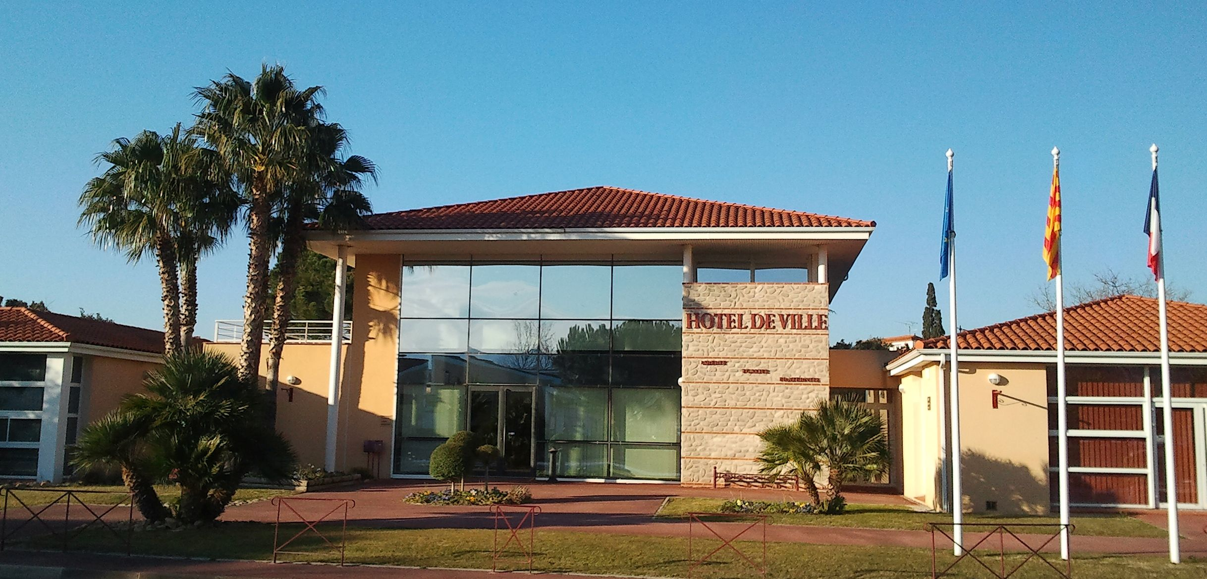 Town hall of Le Boulou